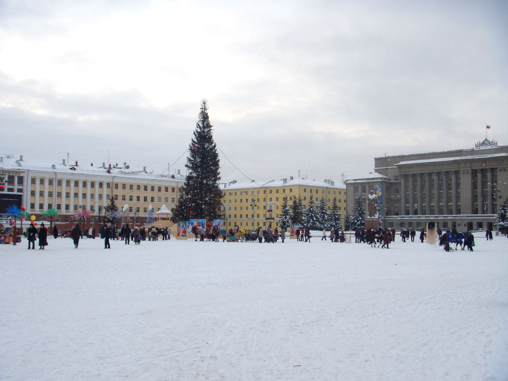 Kirov Theater Square in the New Year